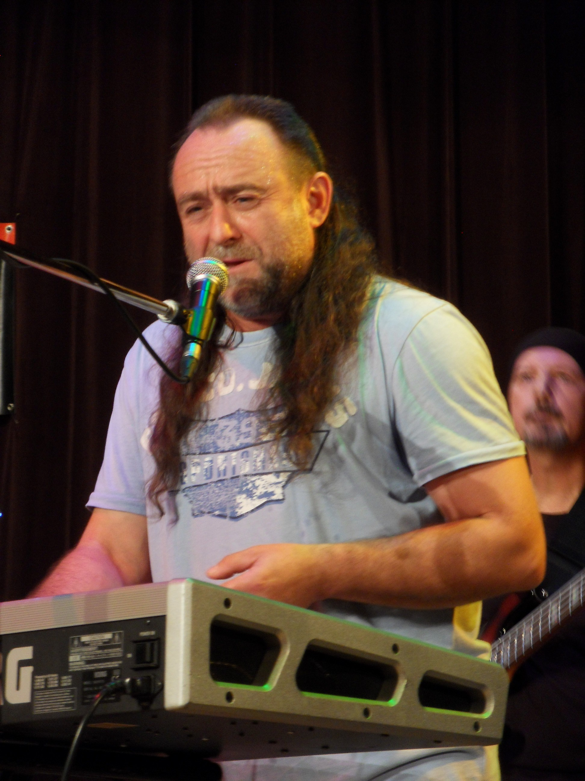 Borek Nedorost, keyboardist and vocalist of czech rock band Taxi, Brno, Czech Republic